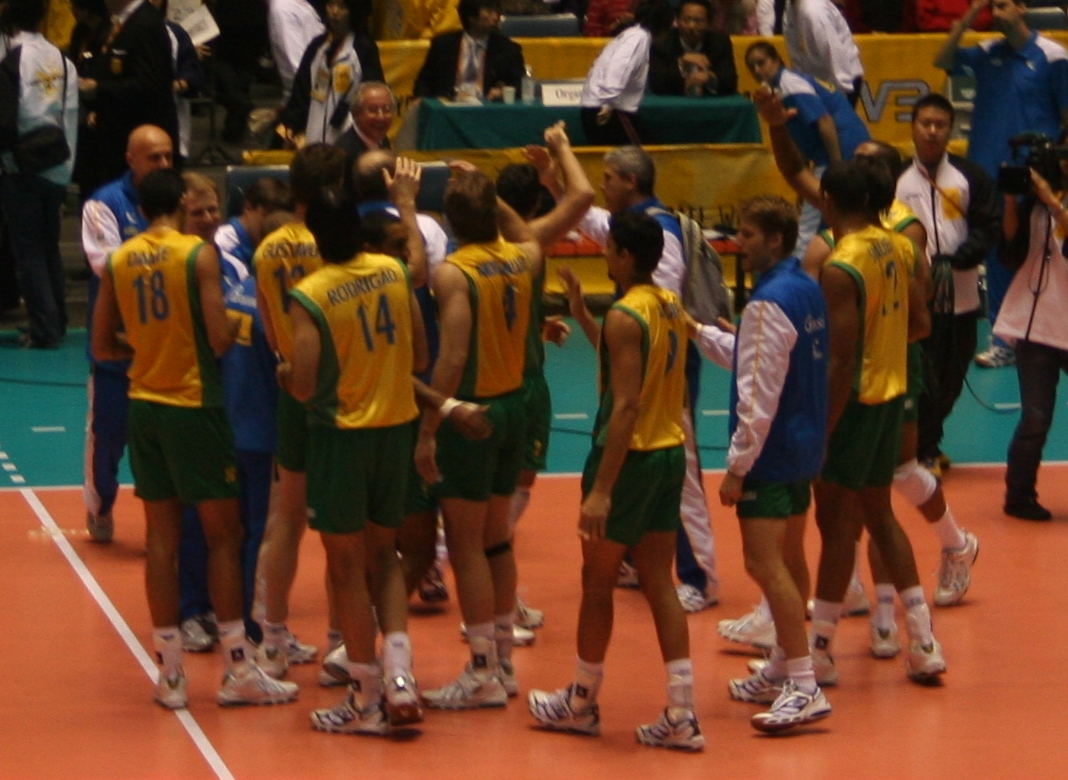 Volleyball World Cup 2006 in Japan. Players from Brazil after their victory in the semifinal against Serbia and Montenegro